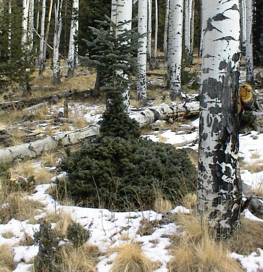 Subalpine Fir Abies lasiocarpa with deer browsing damage. The top of the tree has now outgrown the reach of the deer and is growing normally. Aspen Populus tremuloides trunks behind.